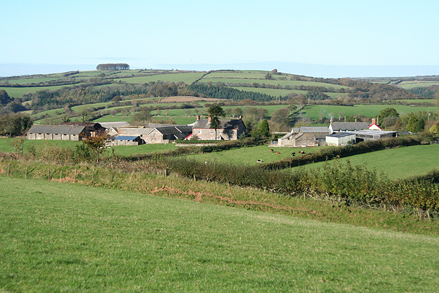 North Molton: towards Upcott Looking north west by the entrance to Sannacott. Upcott is a collection of farm houses, cottages, barns and other outbuildings. On the skyline is Bampfylde Clump, roughly between North Molton and Heasley Mill